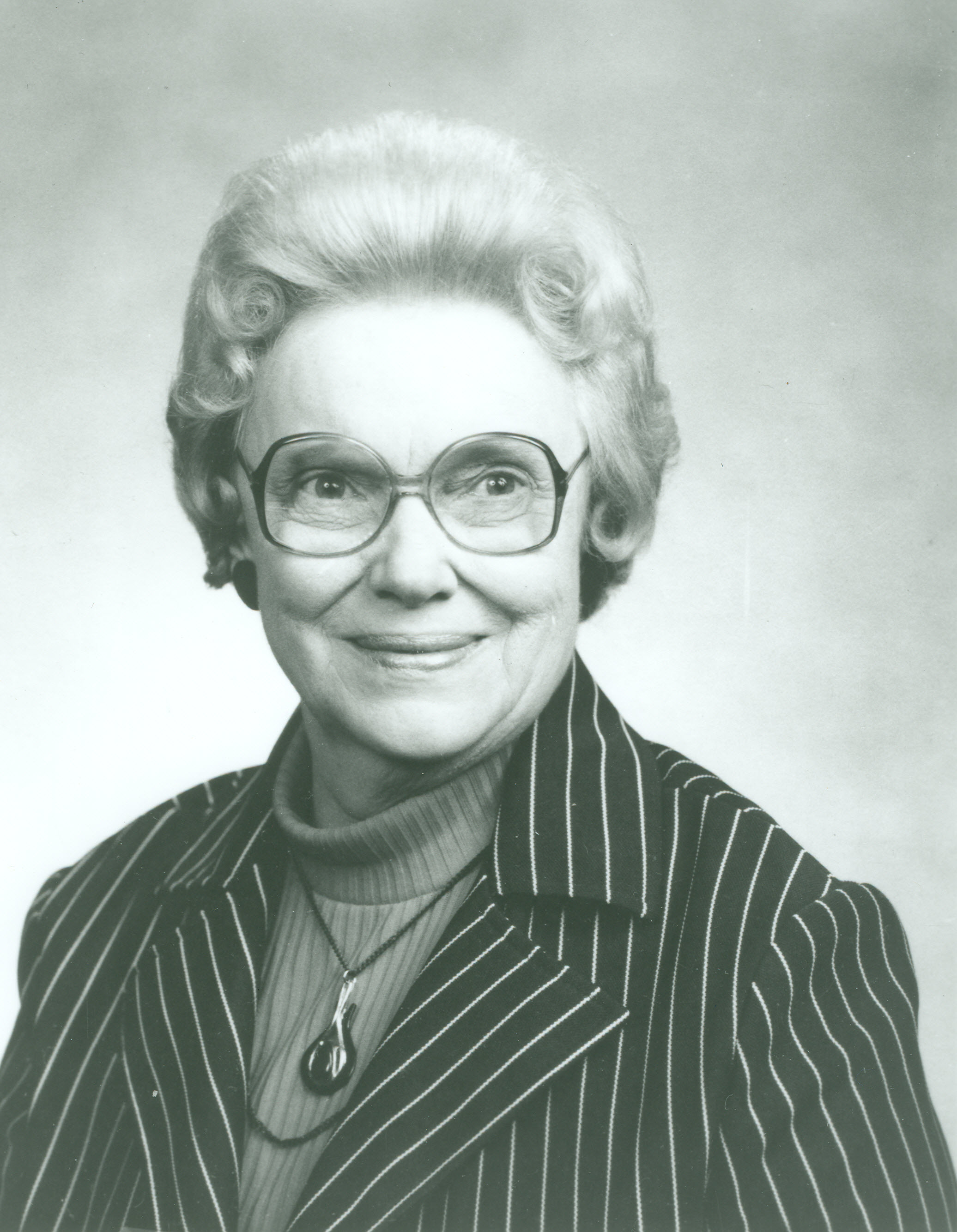 former congresswoman Virginia Dodd Smith of Nebraska.